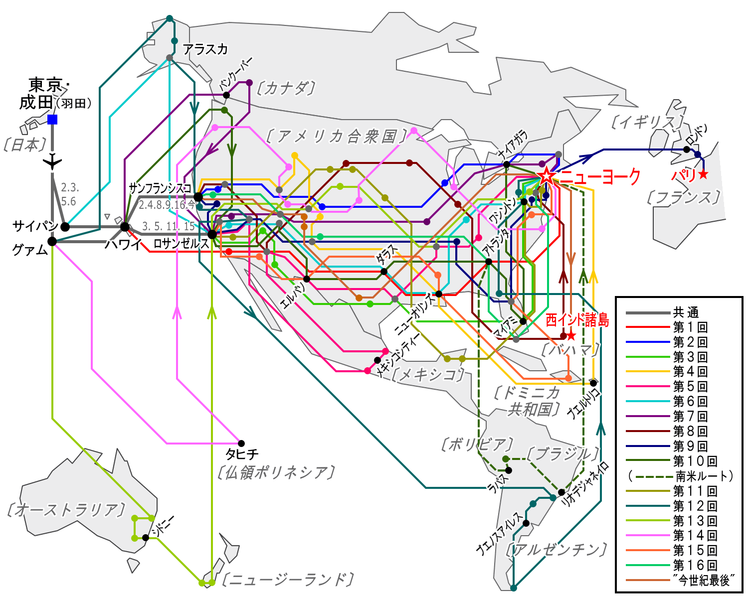 Routes in Trans America Ultra Quiz (Japanese game show in 1977-1992, and 1998).